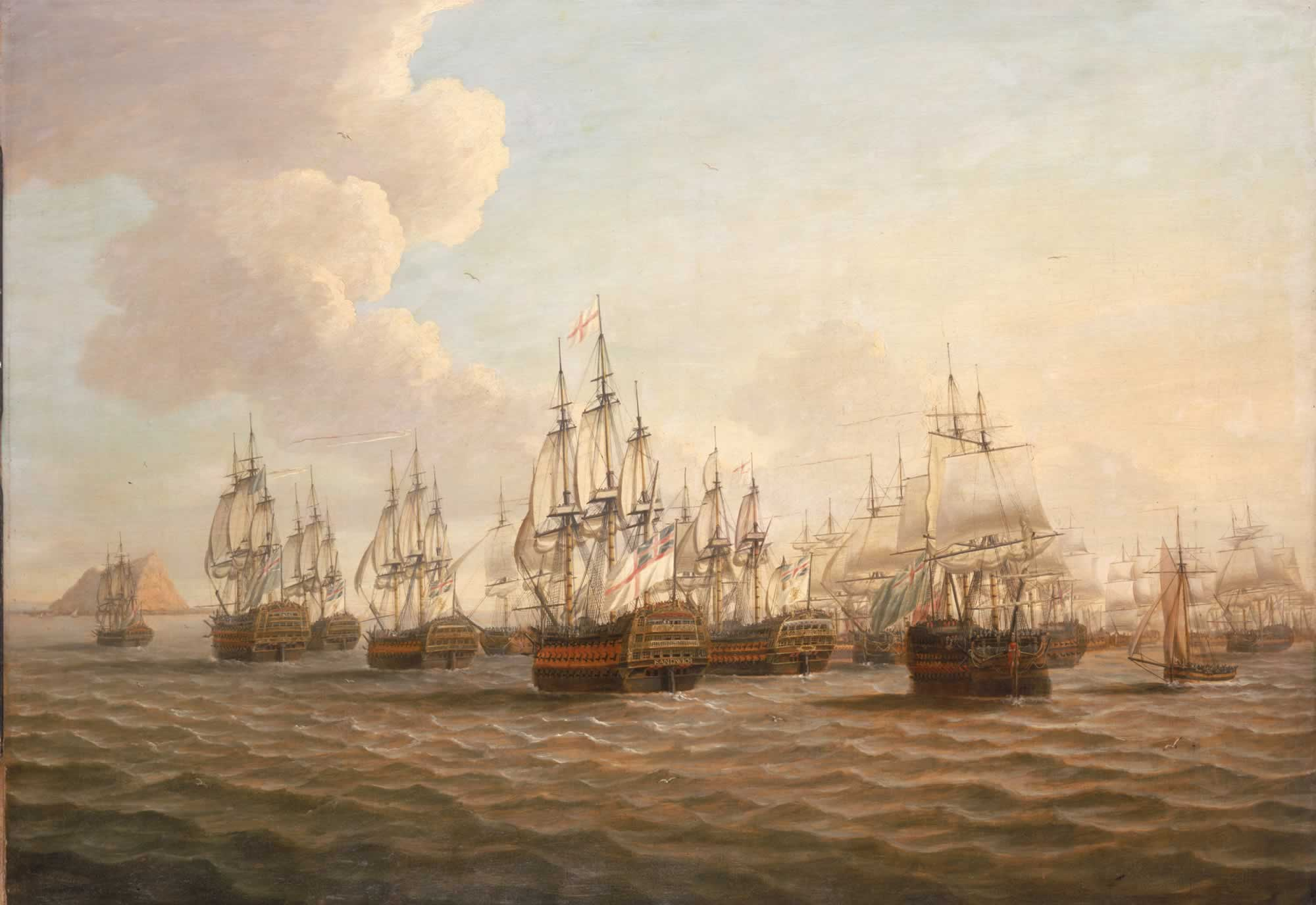 A painting showing a scene after the Moonlight battle 16 January 1780. Sir George Rodney was appointed Commander-in-Chief in the Leeward Islands in the autumn of 1779, during the War of American Independence. On his way out there he convoyed supplies to the beleaguered garrison at Gibraltar, and to Minorca. On 16 January 1780, off Cape St Vincent, he sighted a Spanish squadron of ships of the line under Admiral de Langara. They had formed a line of battle as they were heading for their home port of Cadiz, a hundred miles to the south. Rodney ordered a general chase and just after 1600 the action began. Darkness fell soon afterwards and the chase continued through the night until 02:00, when the headmost of the Spanish squadron surrendered. Four ships of the line together with the two frigates escaped, but six were taken including the flagship. The first four of these were brought to England, but the fifth and sixth were lost near Cadiz. The painting focuses on the morning after the battle when 15 British ships surrounded the fleeing Spanish fleet. The scene is bathed in a golden glow of early morning light. The British flagship ‘Royal George’ is in the centre, indicated by the flag flying from the mainmast. She is at the head of a line of British ships, shown in the act of capturing the Spanish squadron in the middle centre. Land can be seen in the distance on the left.